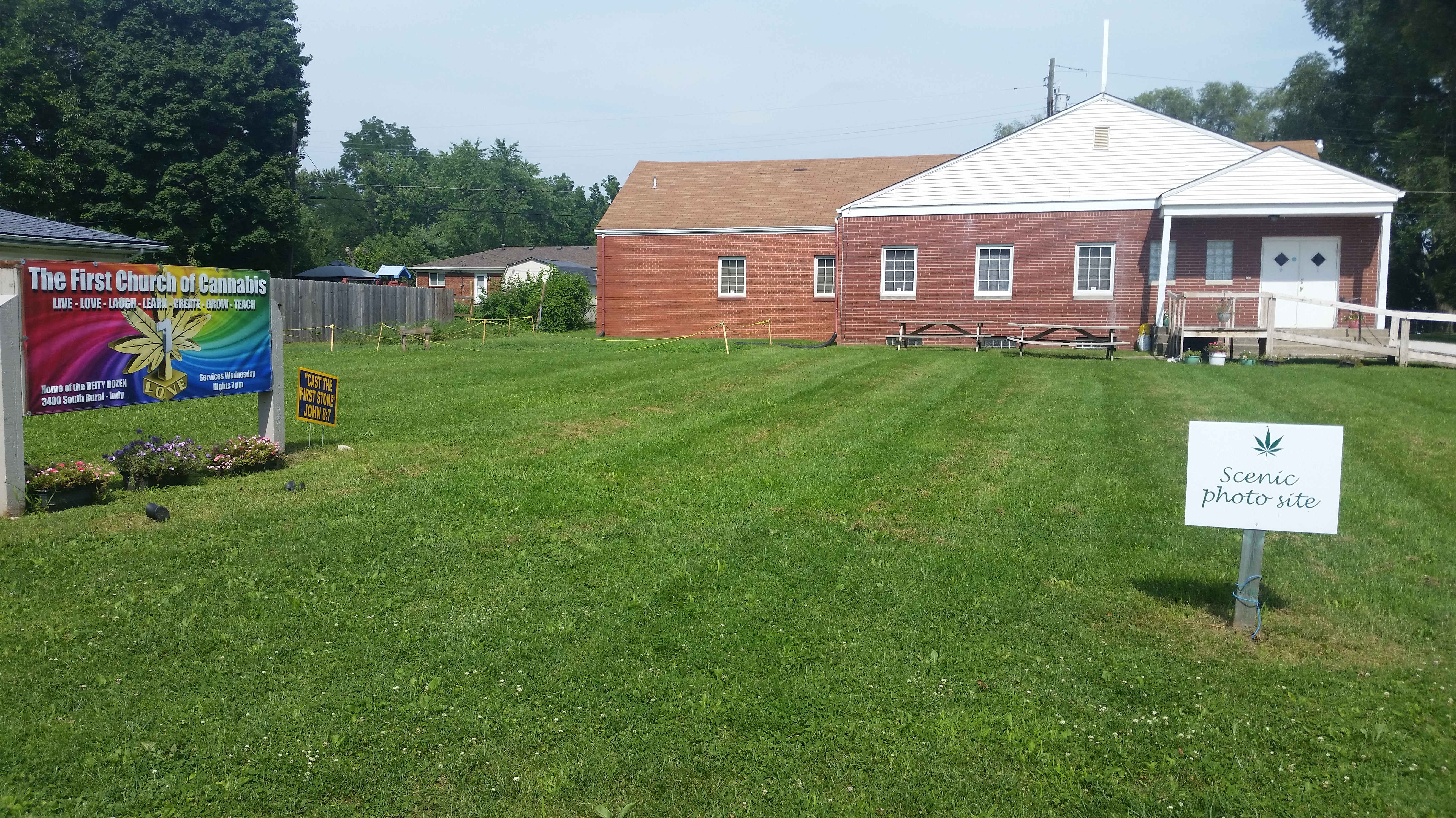 Image of the First Church of Cannabis